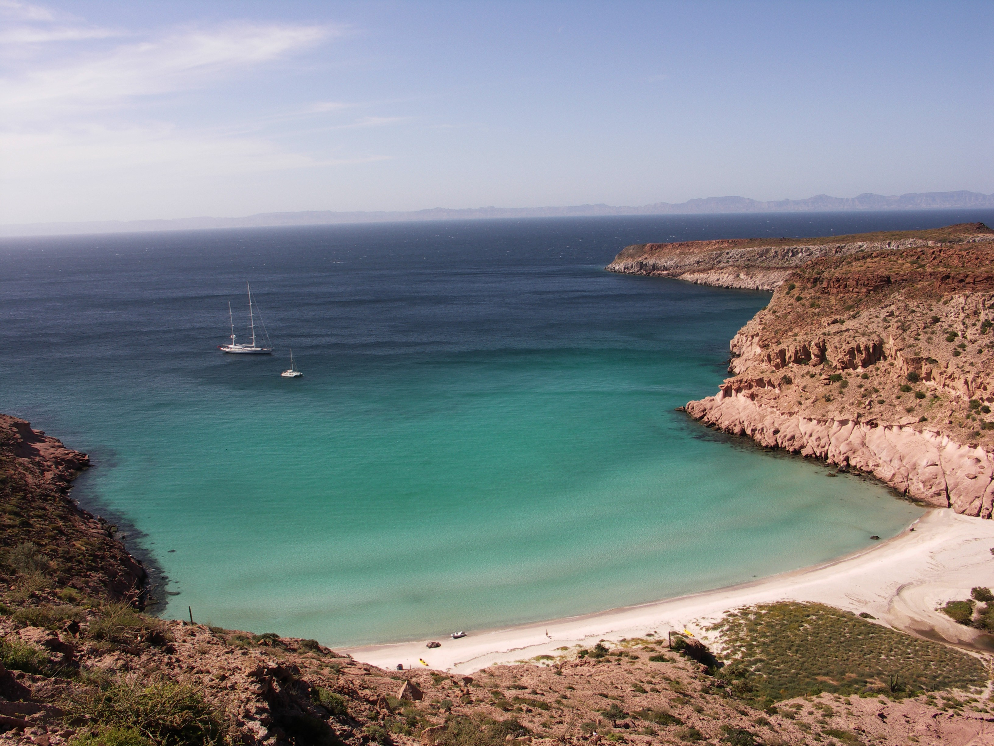 picture of Ensenada Grande beach, Isla Partida, Sea of Cortez, Baja California, Mexico